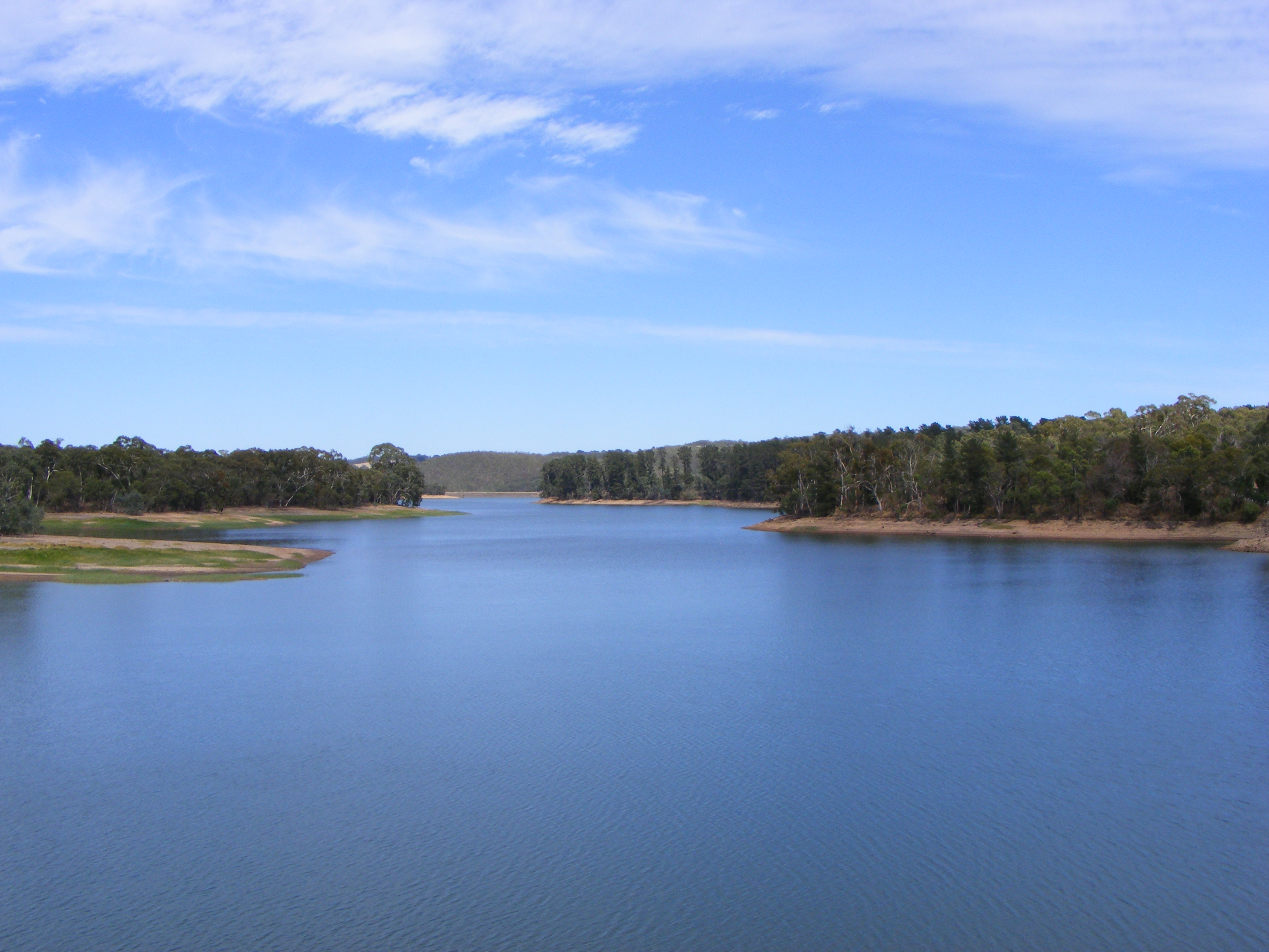 Millbrook reservoir, near Gumeracha, South Australia